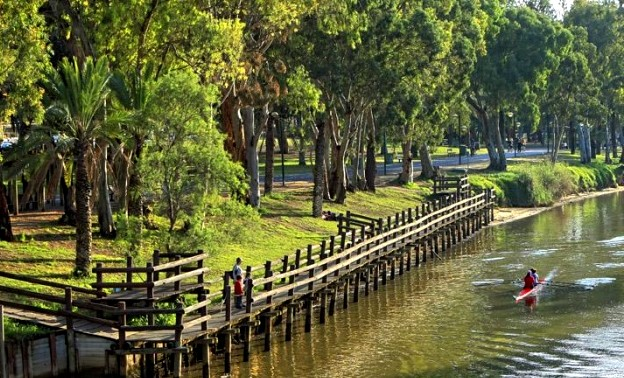 Hayarkon Park with Hayarkon river flowing through it